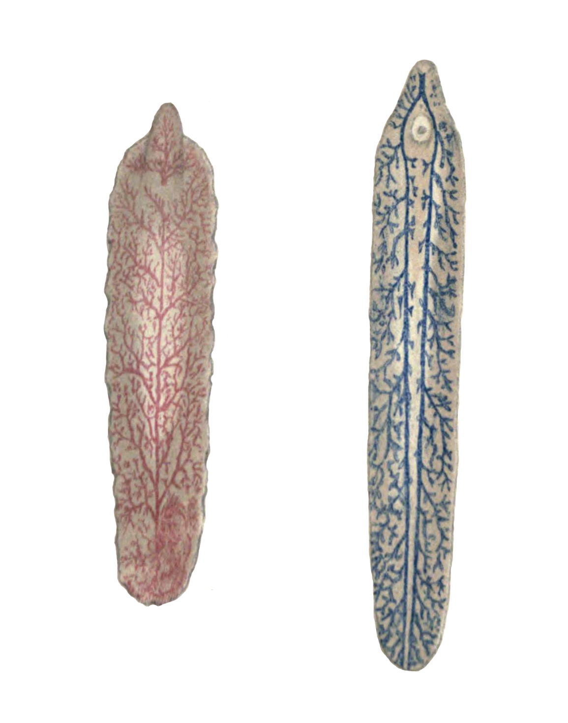 Painting of an adult Fascola gigantica. Left – dorsal view of a specimen stained with vermilion to show vascular system; right — ventral view of a specimen stained with artificial ultramarine to show the intestine.